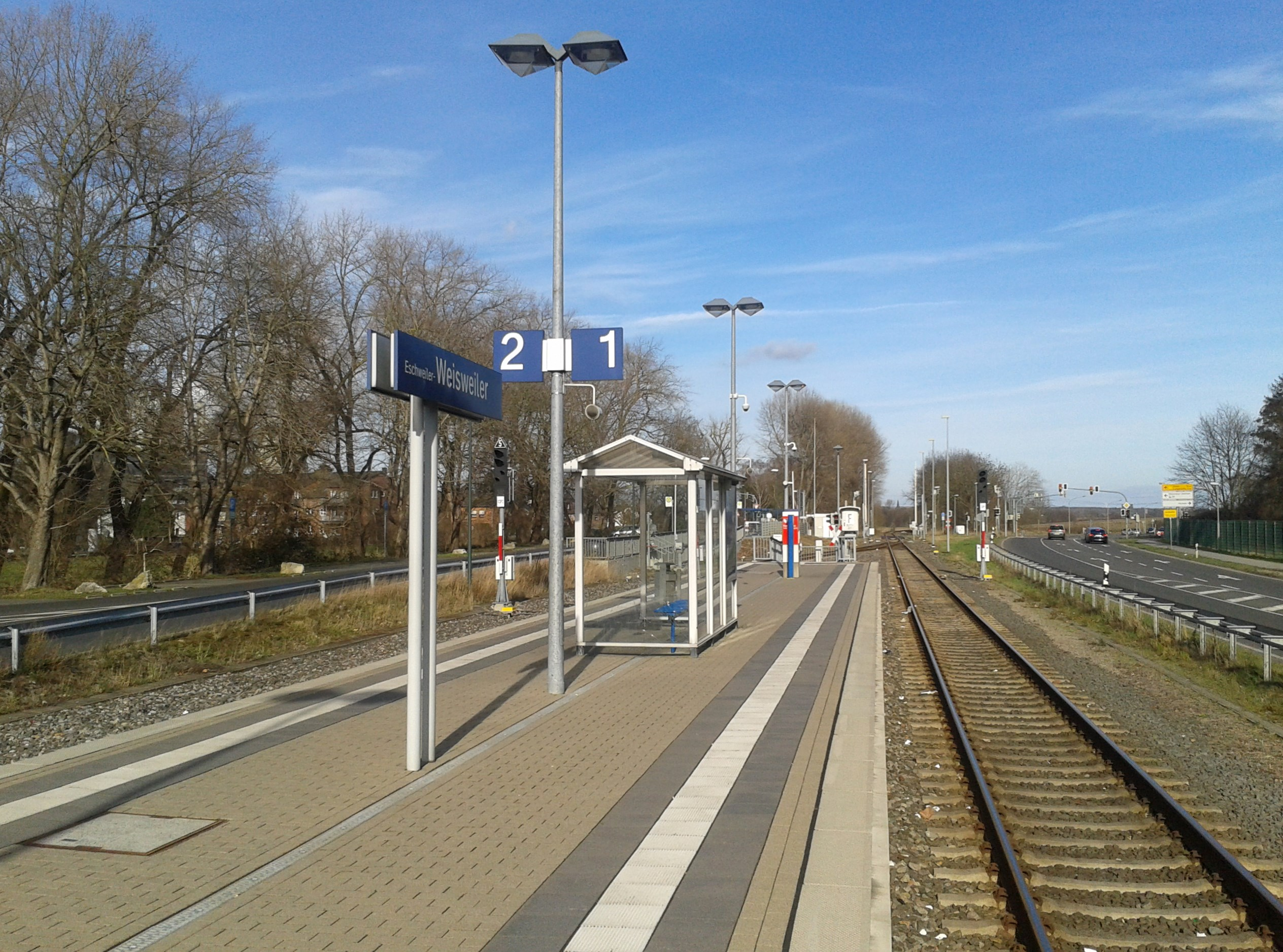 Weisweiler station in February 2014